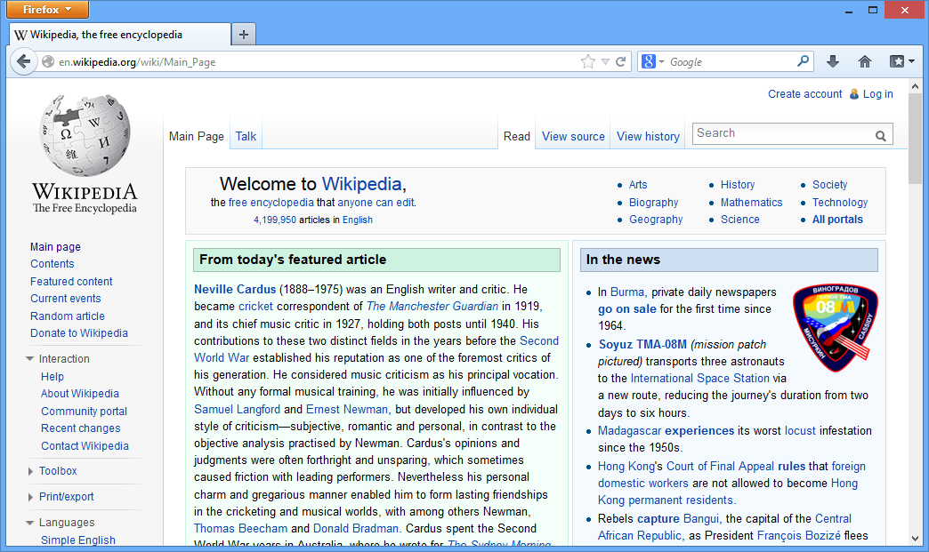 Mozilla Firefox 20.0 on Windows 8